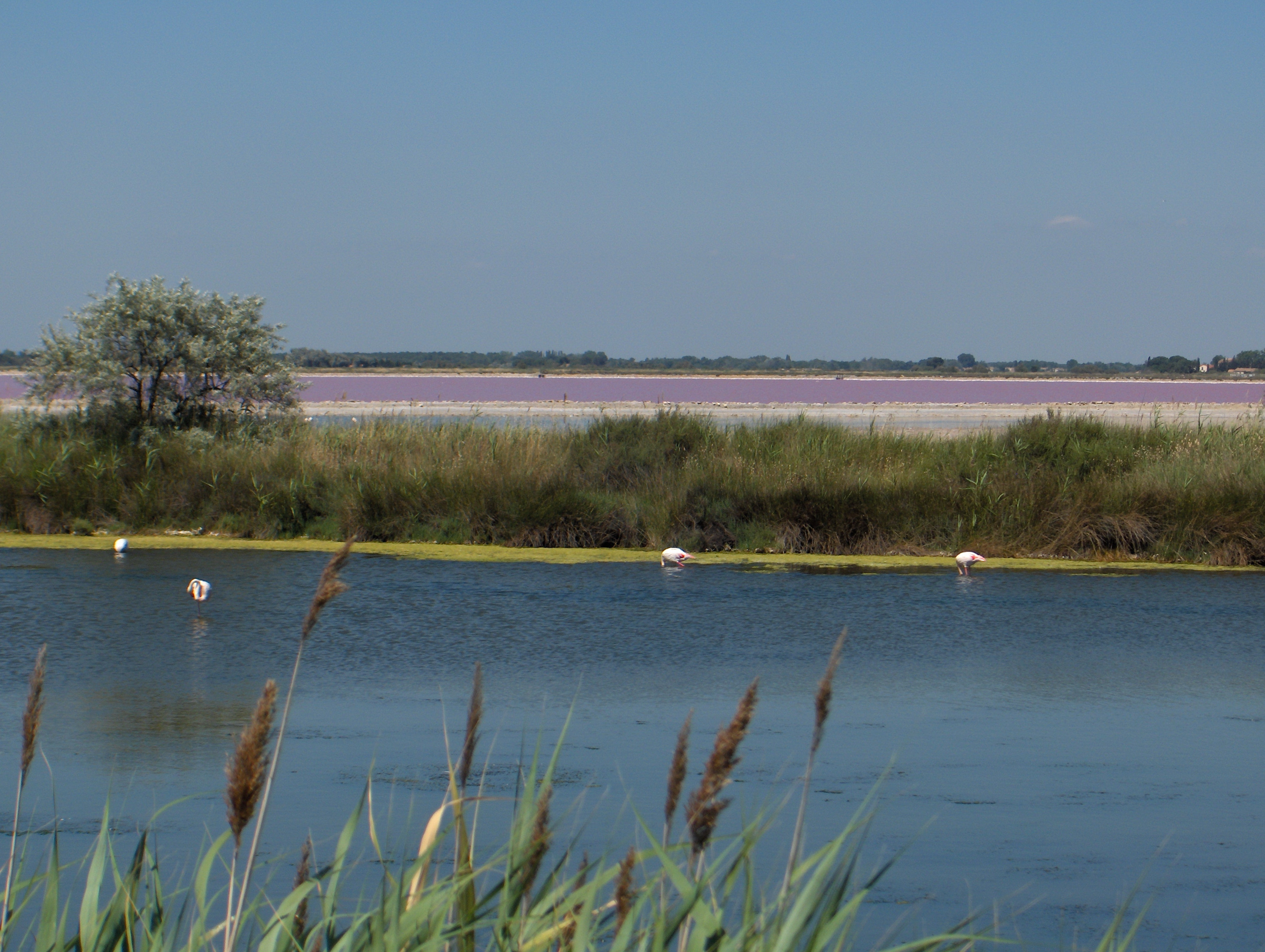 Pond of Repausset Levant in Grau-du-Roi (France)